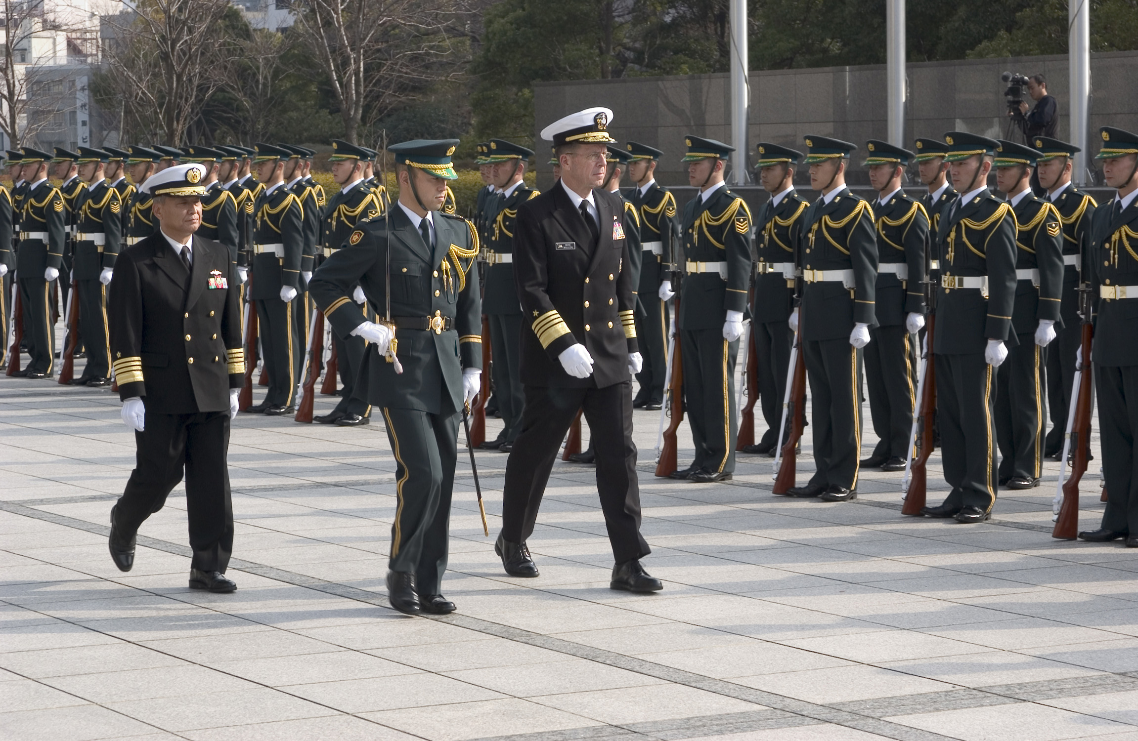 Tokyo, Japan (Jan. 16, 2006) - A member of Japan's Ground Self Defense Force Special Honor Guard escorts the United States Chief of Naval Operations, Adm. Mike Mullen, and Japan Maritime Self-Defense Force Chief of Staff, Adm. Takeshi Saito, during a welcoming ceremony for Adm. Mullen. The ceremony was conducted at the Japan Defense Agency in Tokyo. U.S. Navy photo by Photographer’s Mate 2nd Class John L. Beeman (RELEASED)